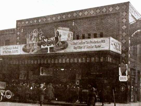 The Royal Theater in Des Moines, Iowa, playing the film Sex (1920), on page 4153 of the May 15, 1920 Motion Picture News.